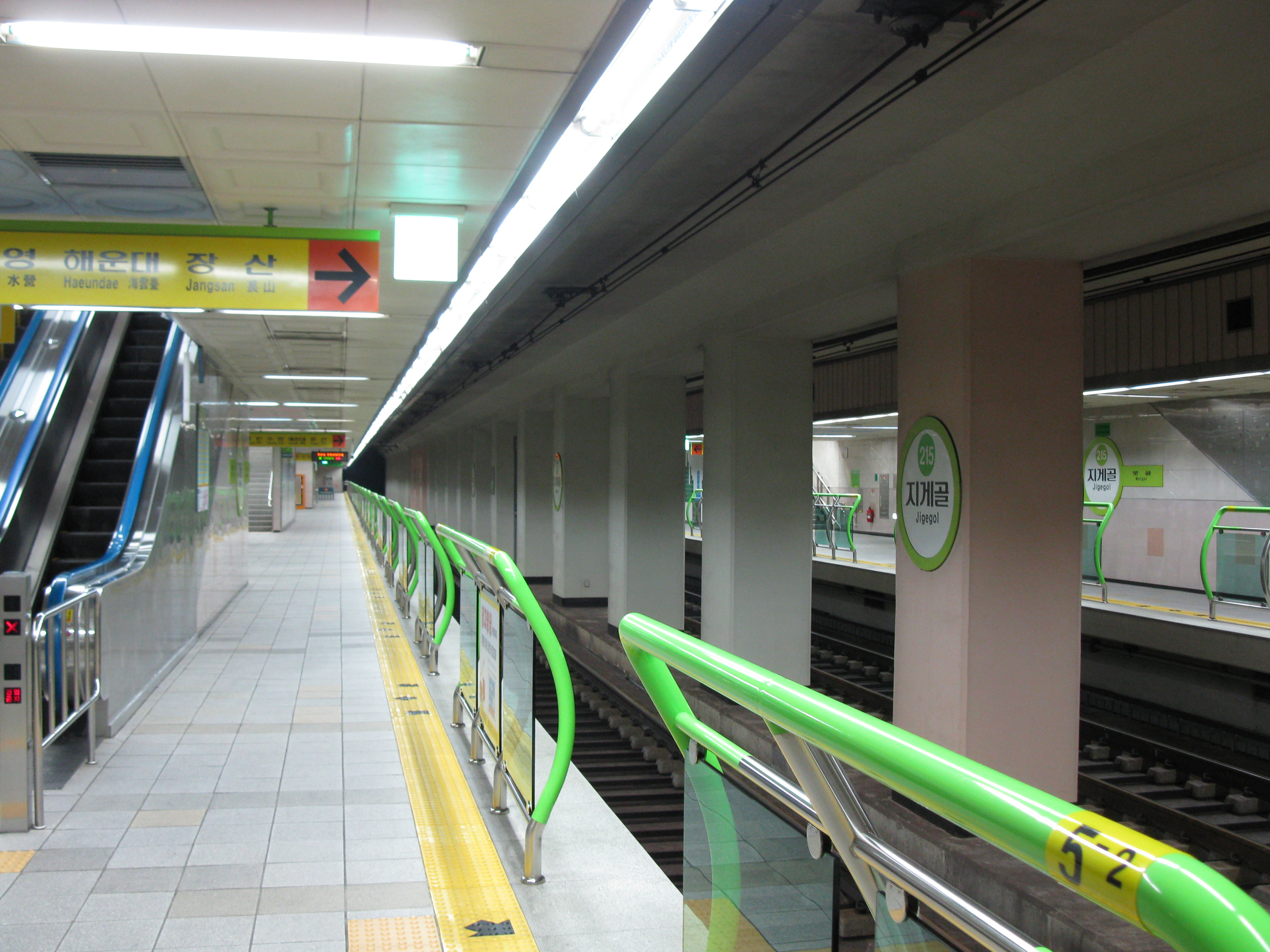 Jigegol Station platform (Busan Subway Line 2)